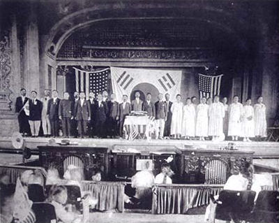 Korean National Association annual convention, 1915 Fort Street Theater in Honolulu, Hawaii